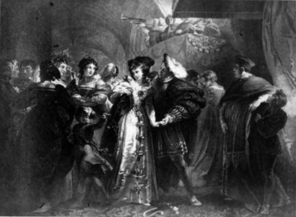 Thomas Stothard, "Henry_VIII_act_I_scene_4" for Boydell Shakespeare Gallery